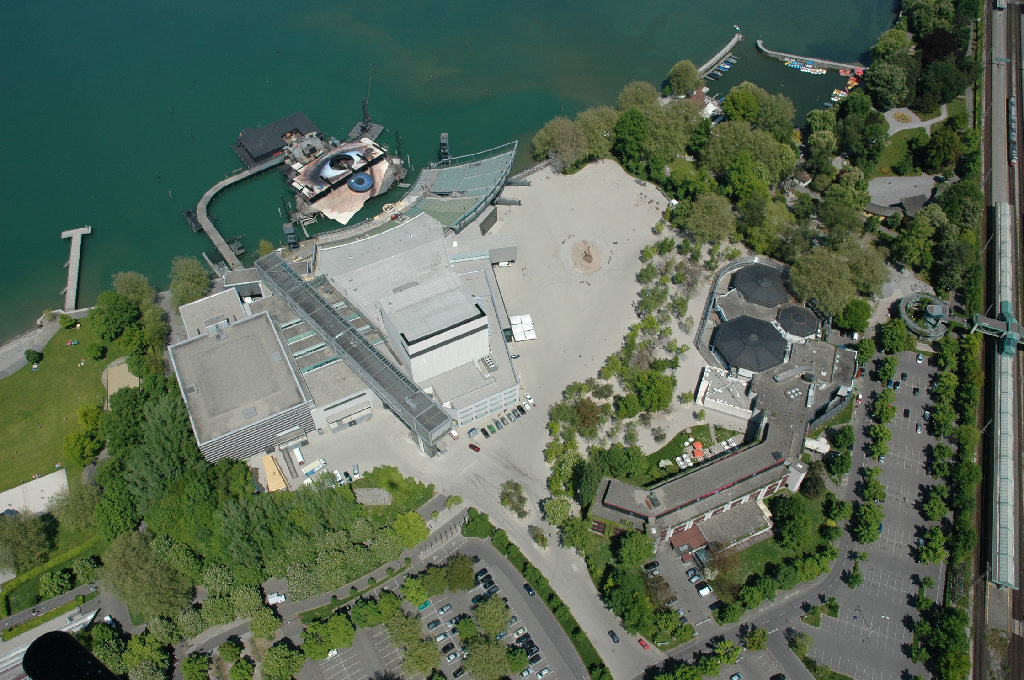 The Lake Stage and the festival building of the Bregenz festival in Bregenz, Austria on an aerial photo.